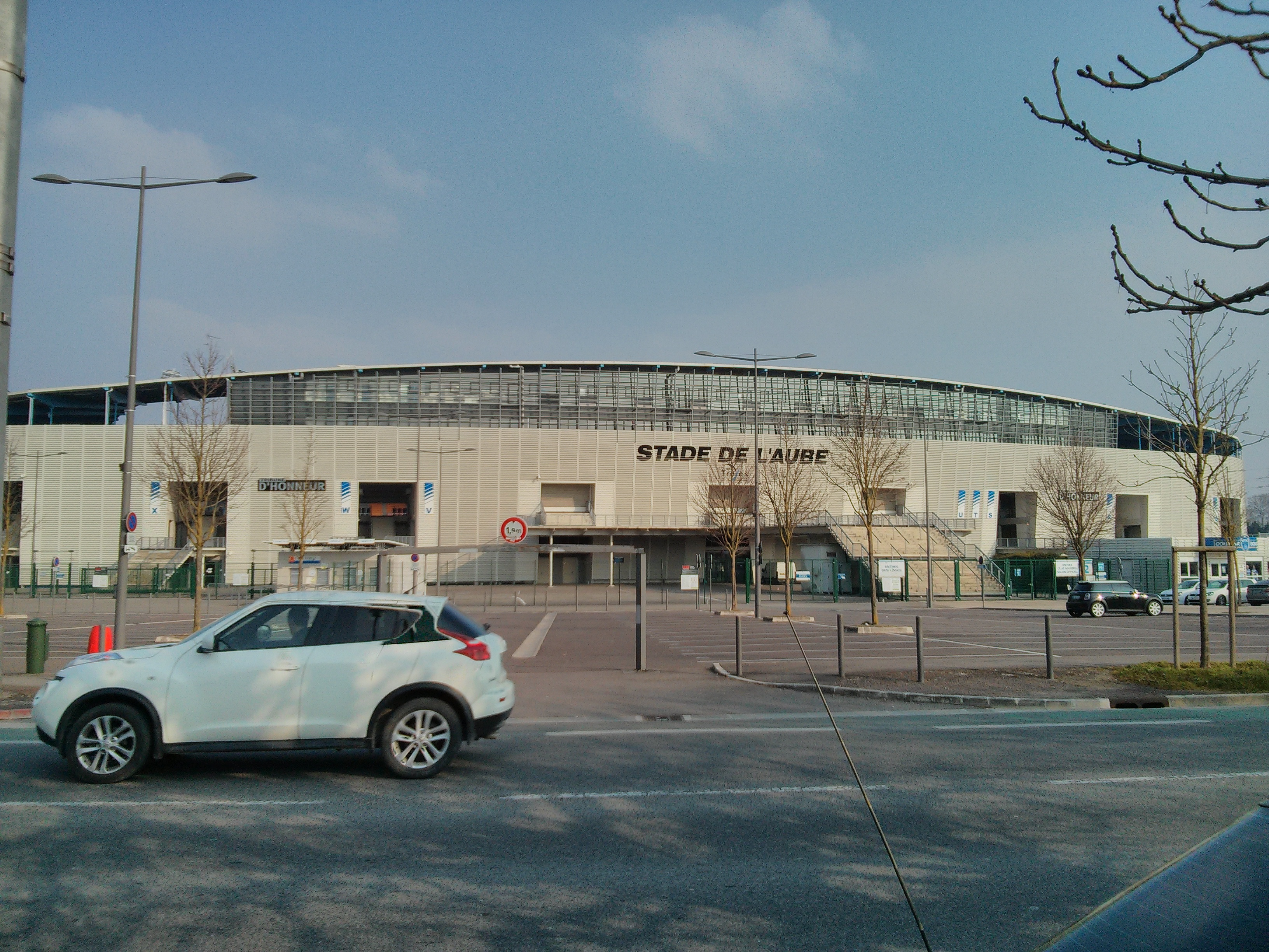 Troyes, stadium, football, pont Sainte marie